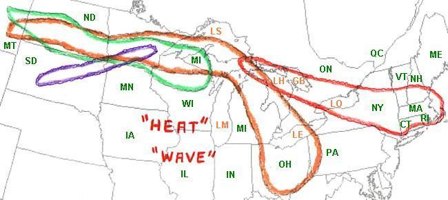 Map track of all four derechos from the July 1995 Heat Wave derecho event (courtesy of NOAA)